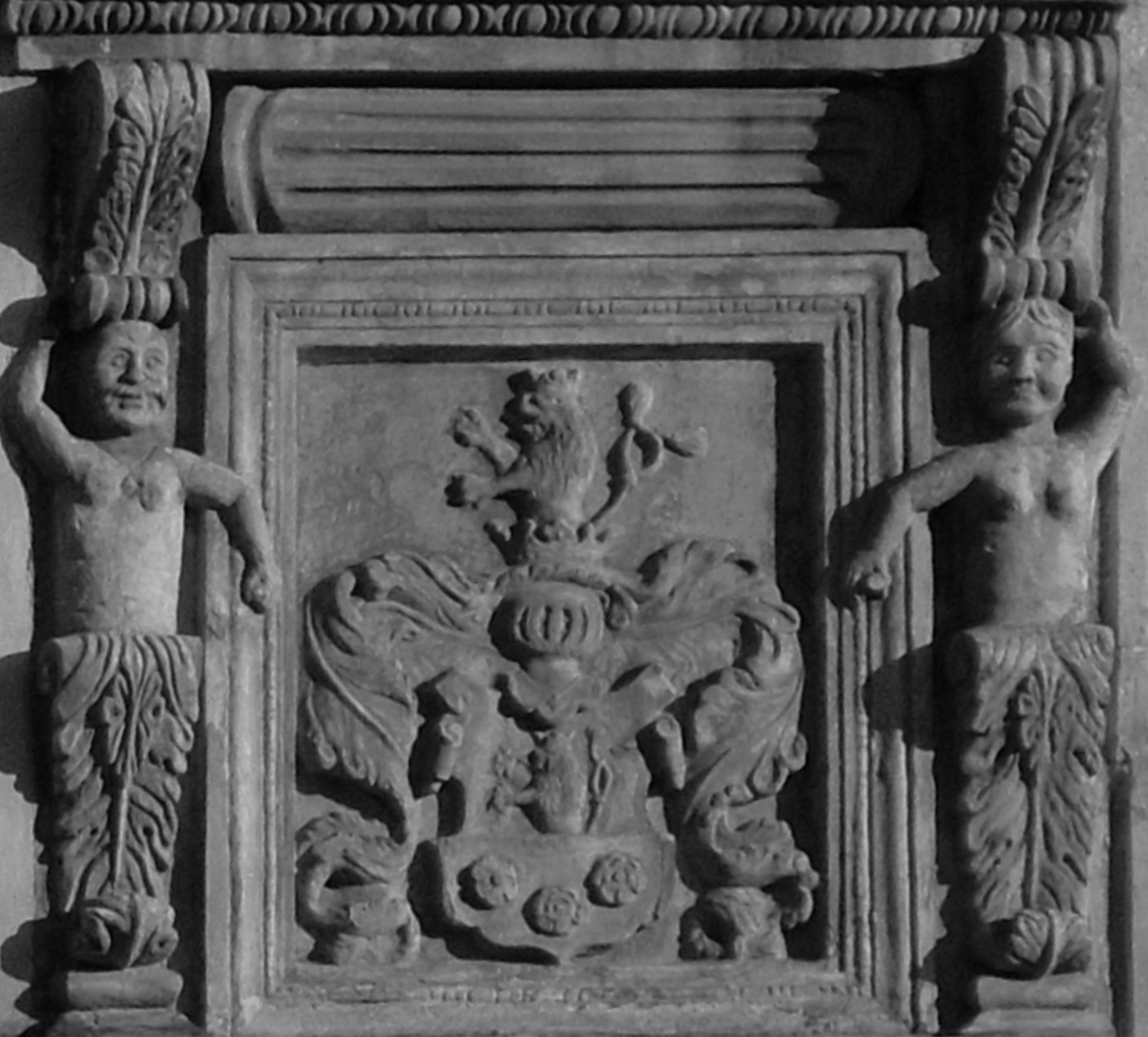 Coat of arms of Ferenc Thurzó, bishop of Nitra, Slovakia (1534 - 1557). Portal of entrance gate to the courtyard of manor house / castle in Bytča. Left side.